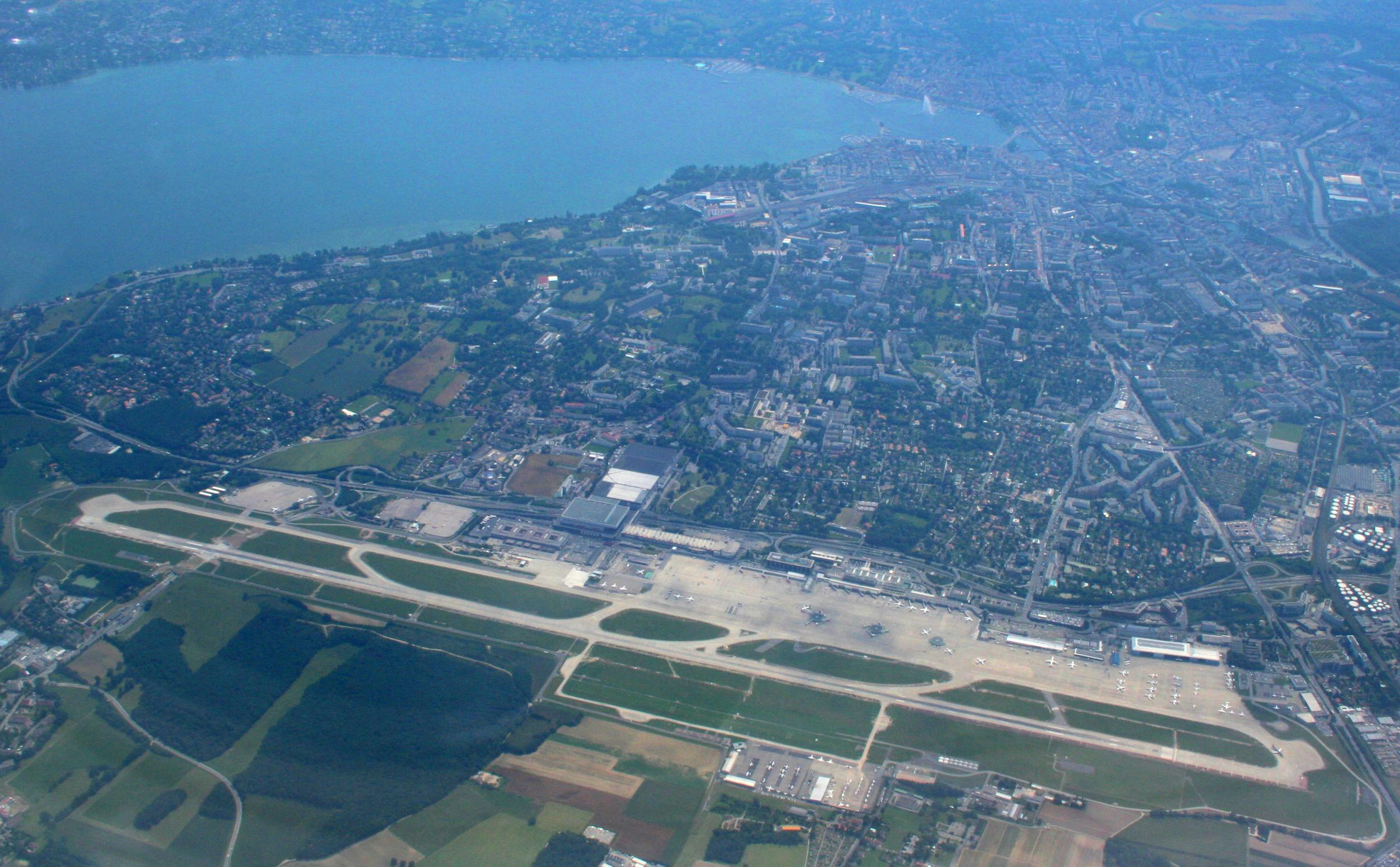 Geneva International Airport, with the city of Geneva in the background